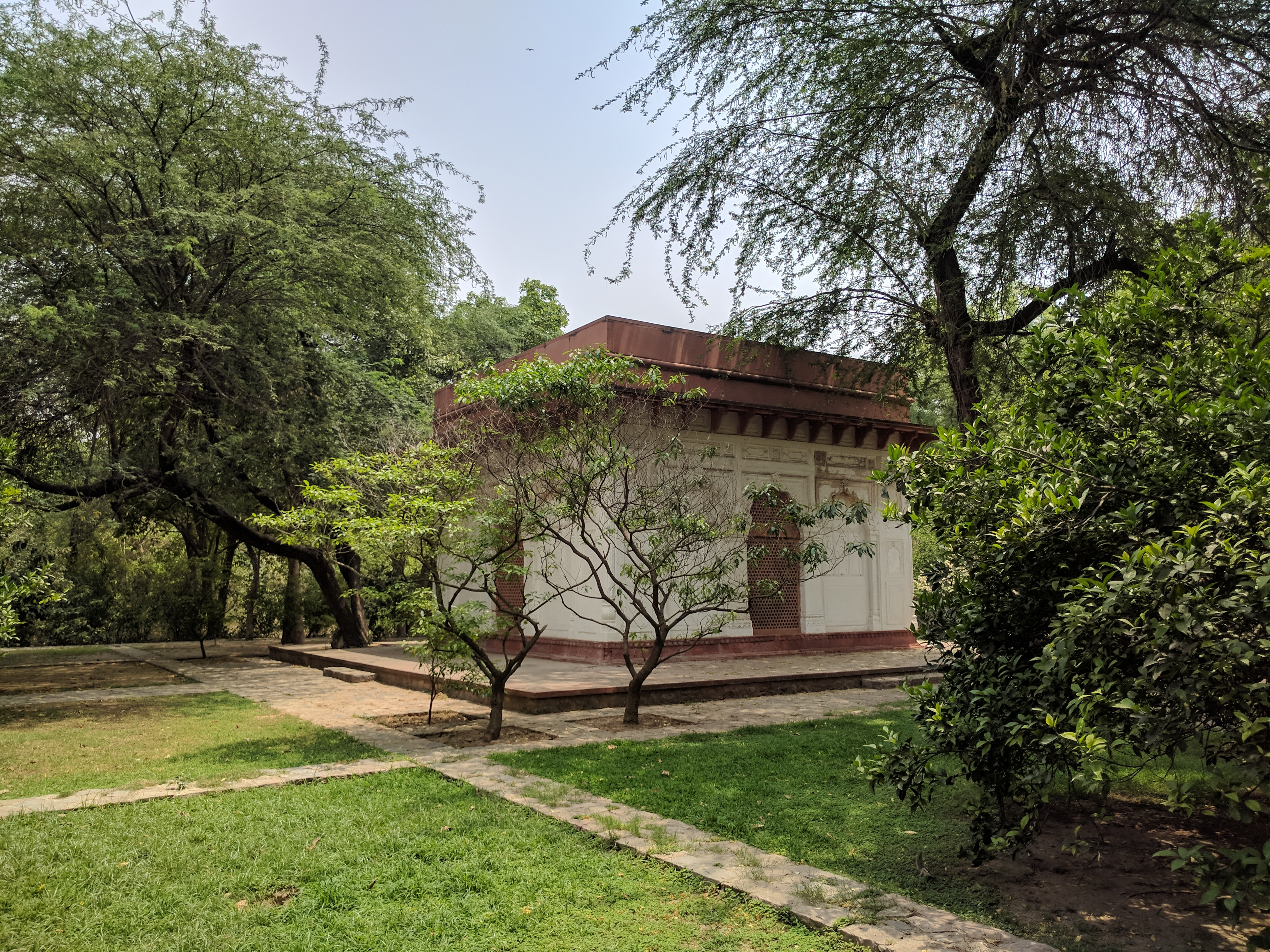 Mughal Garden Pavillion, Sunder Nursery